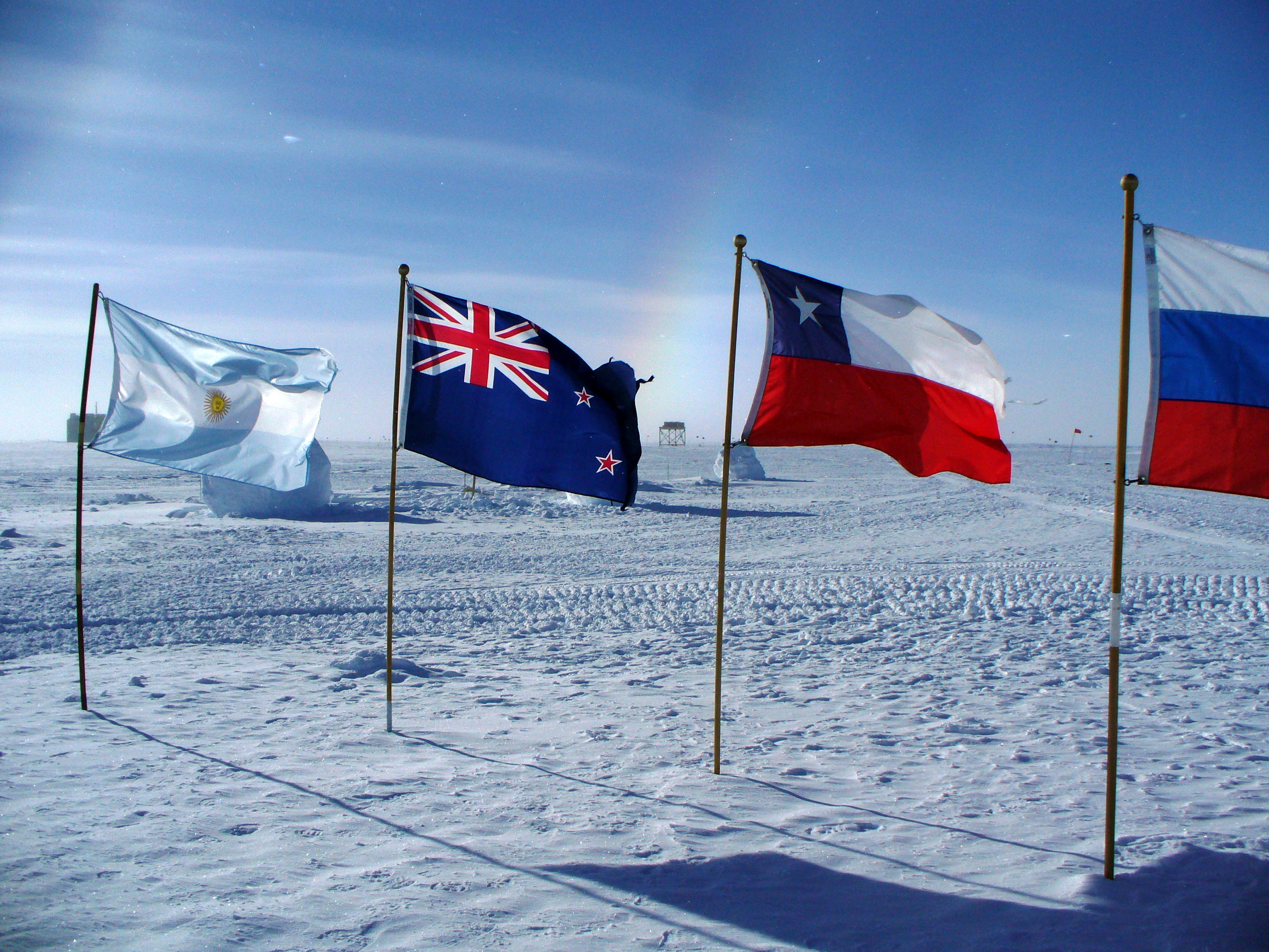 Flags of Argentina, New Zealand, Chile, and Russia at the ceremonial South Pole, with sundog. Amundsen-Scott South Pole Station, Jan. 14, 2010.